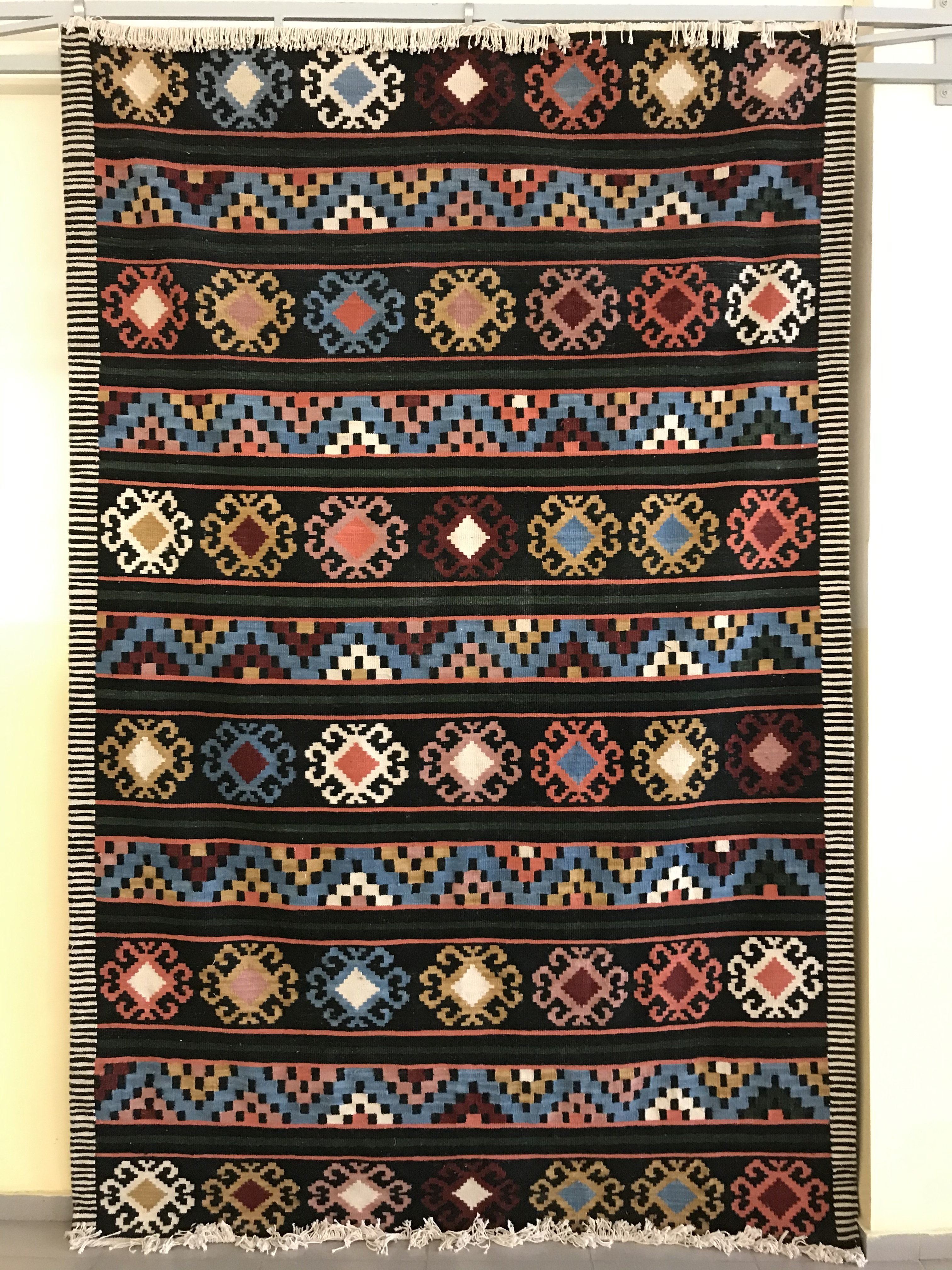 This photo has been taken in the country: Azerbaijan